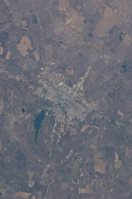 Astronaut Photo of Nur-Sultan, Kazakhstan taken from the International Space Station (ISS) during Expedition 28 on September 8, 2011.